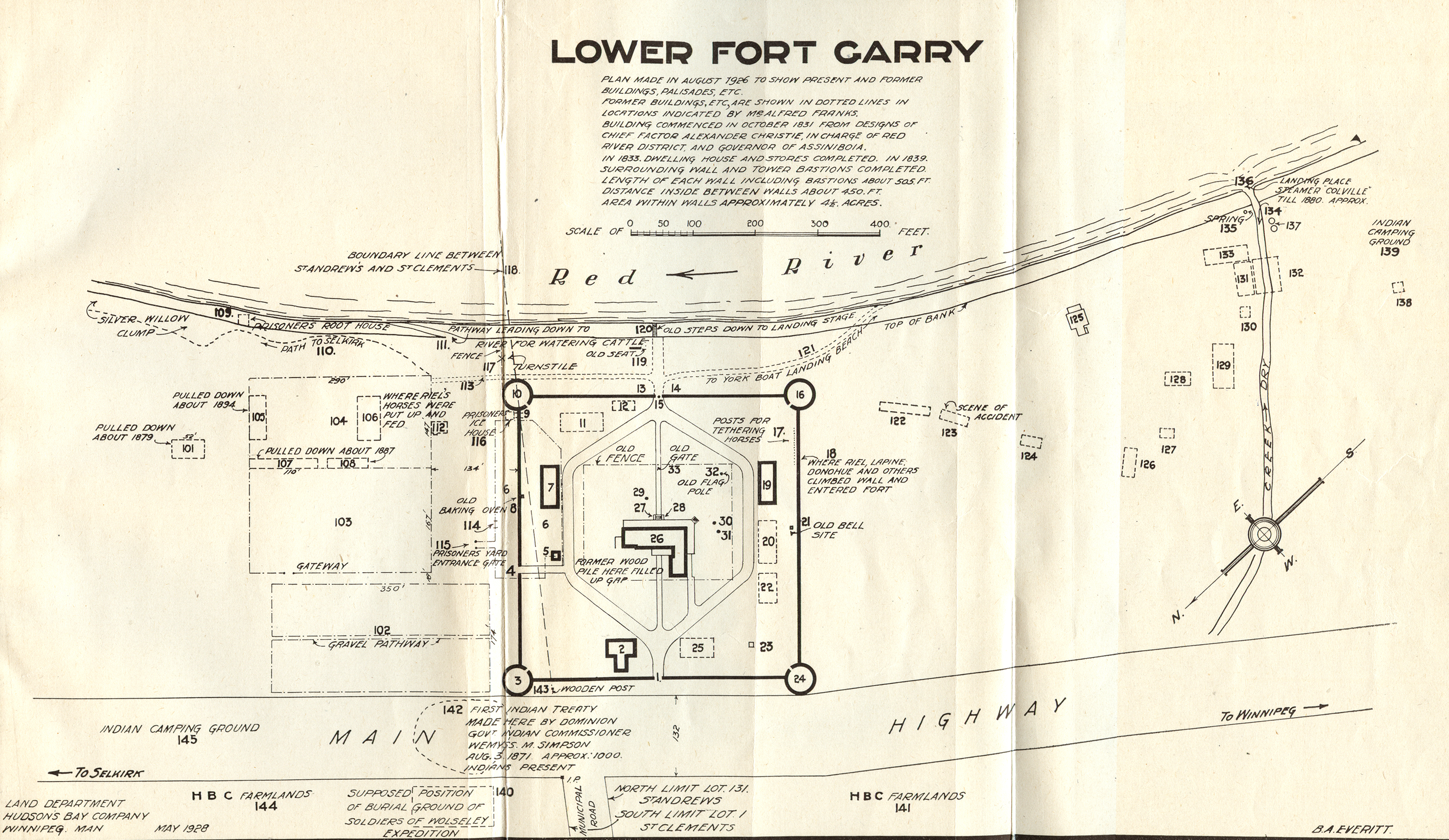 A Plan of Lower Fort Garry (1928) Lower Fort Gary was built in 1831-1839, of local limestone, to replace the establishment at Fort Gary proper as the headquarters of the Hudson’s Bay Company at Red River. However, Fort Garry, soon called Upper Fort Gary and rebuilt after 1835, remained the center of operations for the Hudson’s Bay Company in the region, and the Lower Fort never took over its main functions. The Lower Fort stands today as the only remaining Canadian example of a stone fort built for the purposes of the fur trade. Though it was not of great significance in the fur trade days, it was of some importance during the events of the Riel Resistance as the captions on the map indicate. The first treaty made by the Dominion government with the Indians of western Canada was made outside the gates of the fort in 1871, and the fort served as the base of the North West mounted Police during the First year of the force’s existence in 1873-1874. (Warkentin and Ruggles. Historical Atlas of Manitoba. map 80, p. 196) Lower Fort Gary. May, 1928. Scale 1 inch to 200 feet. Drawn by B.A. Everitt. Printed in Robert Watson. Lower Fort Garry, A history of the Stone Fort. Winnipeg: Hudson’s Bay Company, 1928. Fold out map.